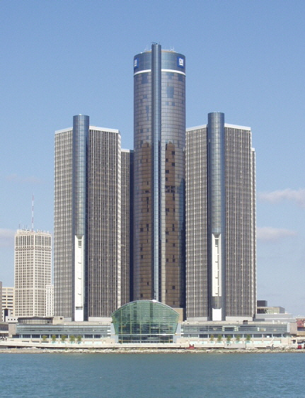 The Renaissance Center in Detroit, Michigan, is General Motors' world headquarters.